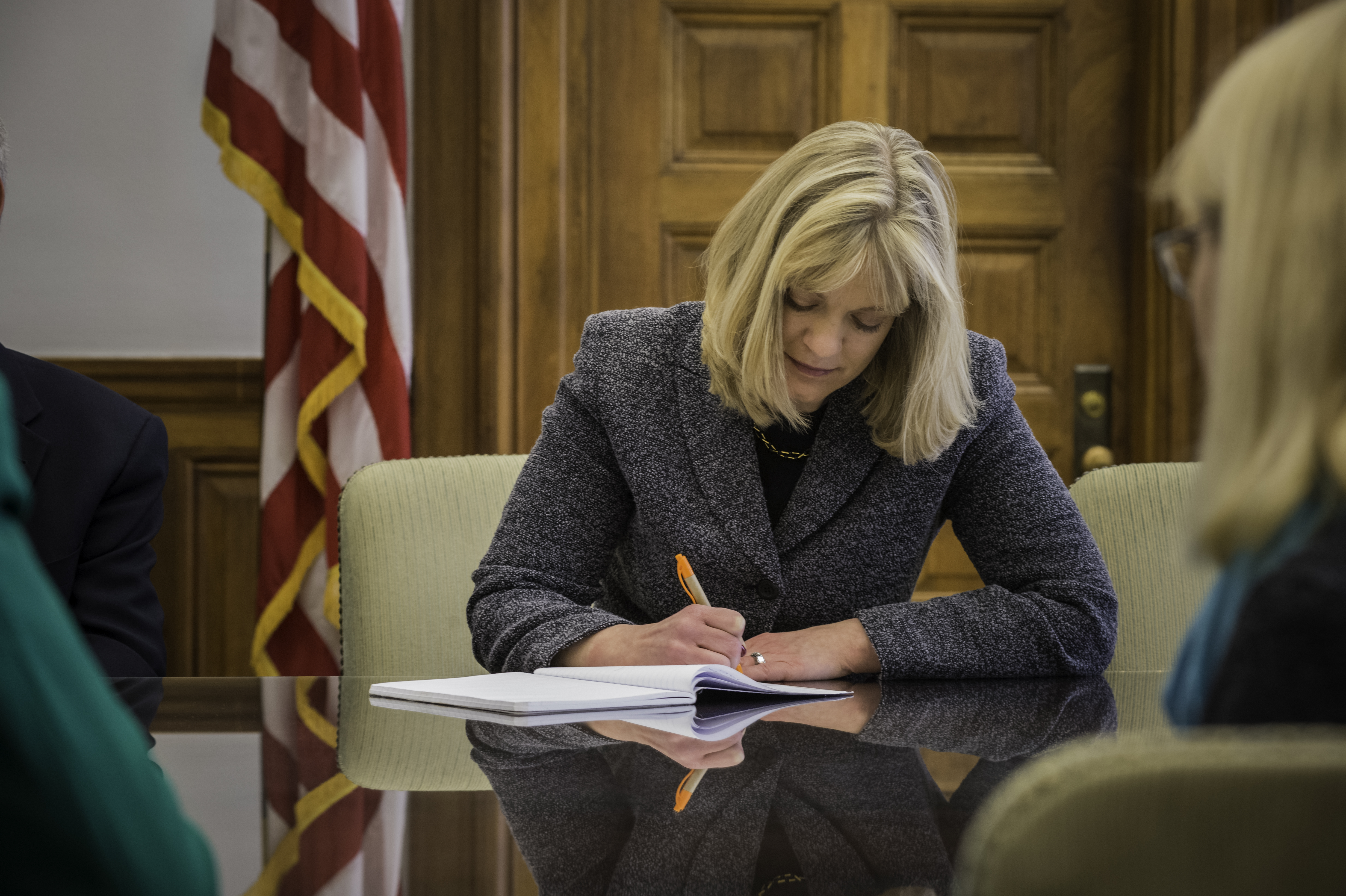 Lisa Davis, Senior Vice President, Government Relations, Feeding America takes notes during a meeting with Agriculture Secretary Tom Vilsack to discuss nutrition programs and efforts to glean food from different resources to assist people in need at the United States Department of Agriculture in Washington, D.C., Wed. Jan. 7, 2015. USDA photo by Bob Nichols.